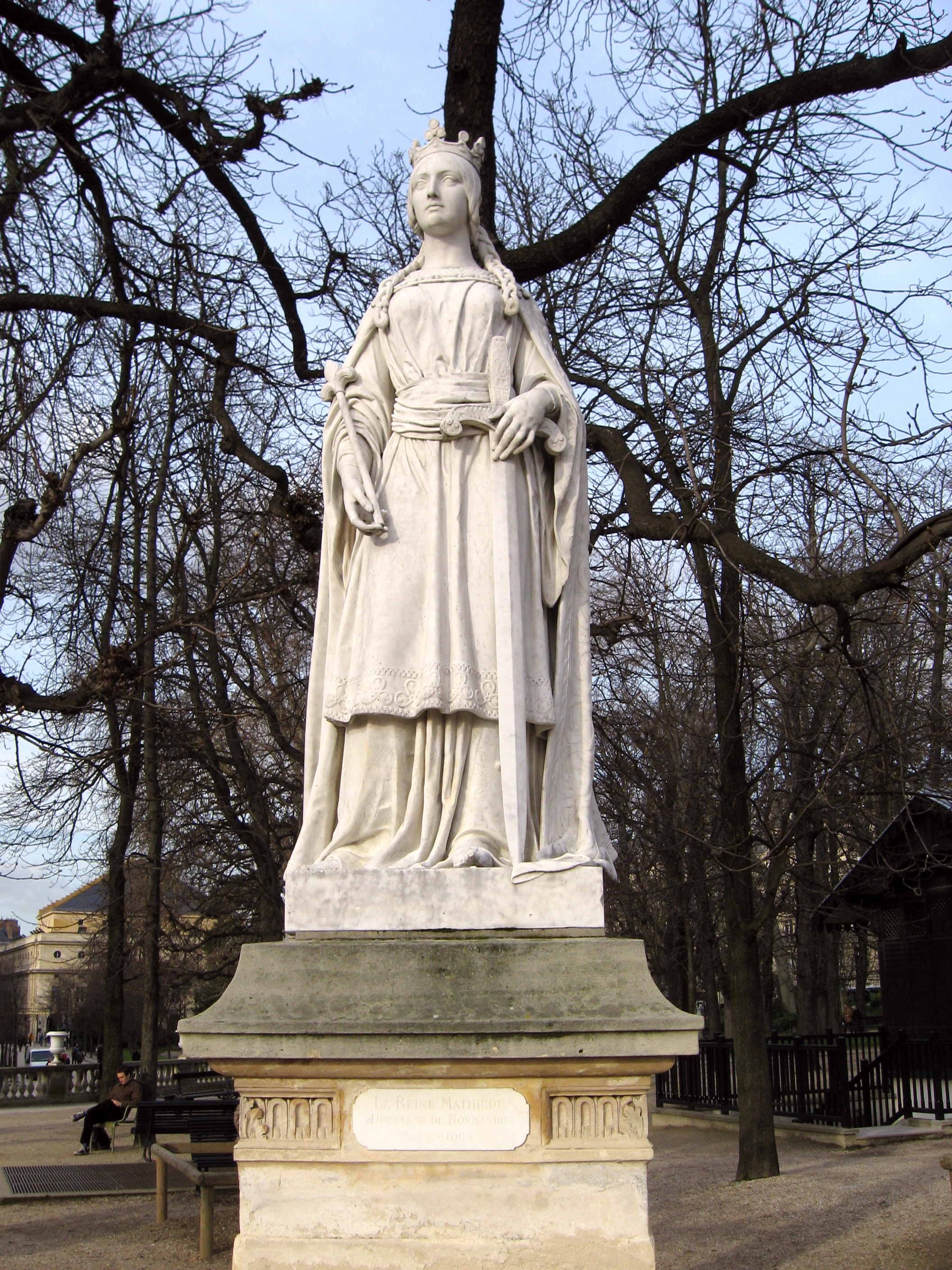 Matilda of Flanders, queen consort of England and wife of William the Conqueror, by Carle Elshoecht (1850). Luxembourg Garden, Paris.